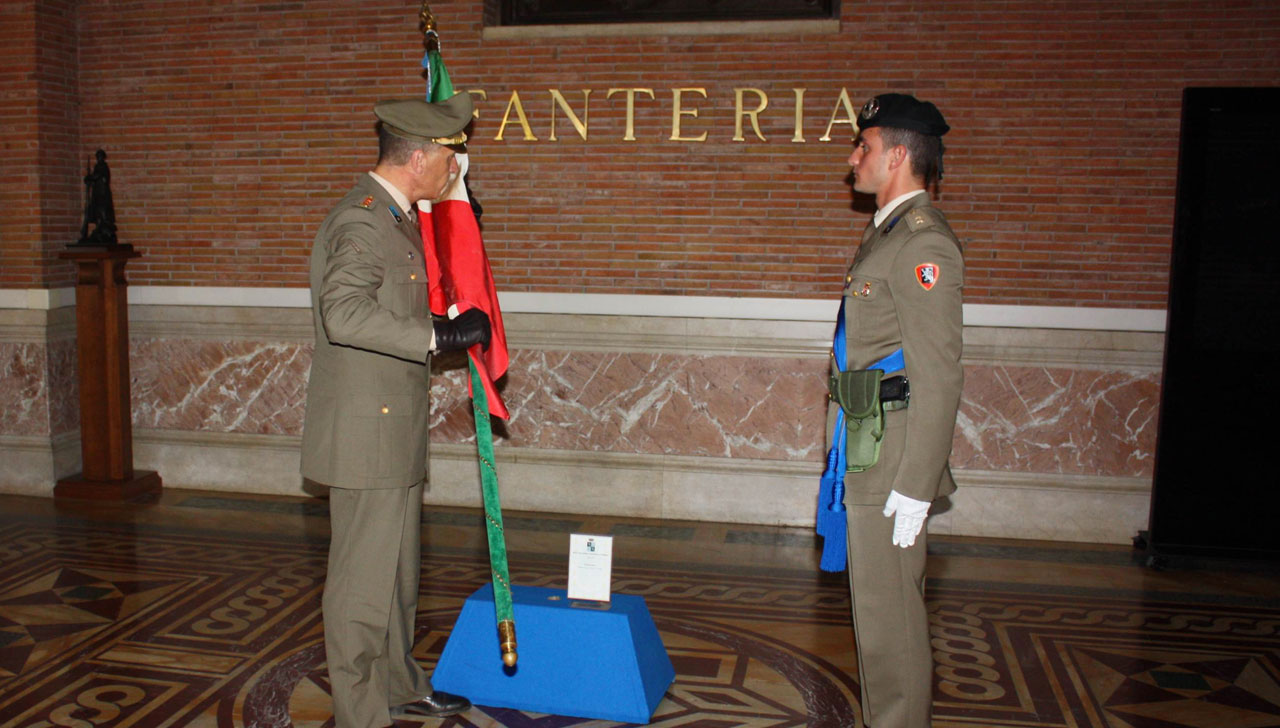 Italian Army - The war flag assigned to the Logistic Regiment "Aosta" is retrieved by the regiment's commander in Rome